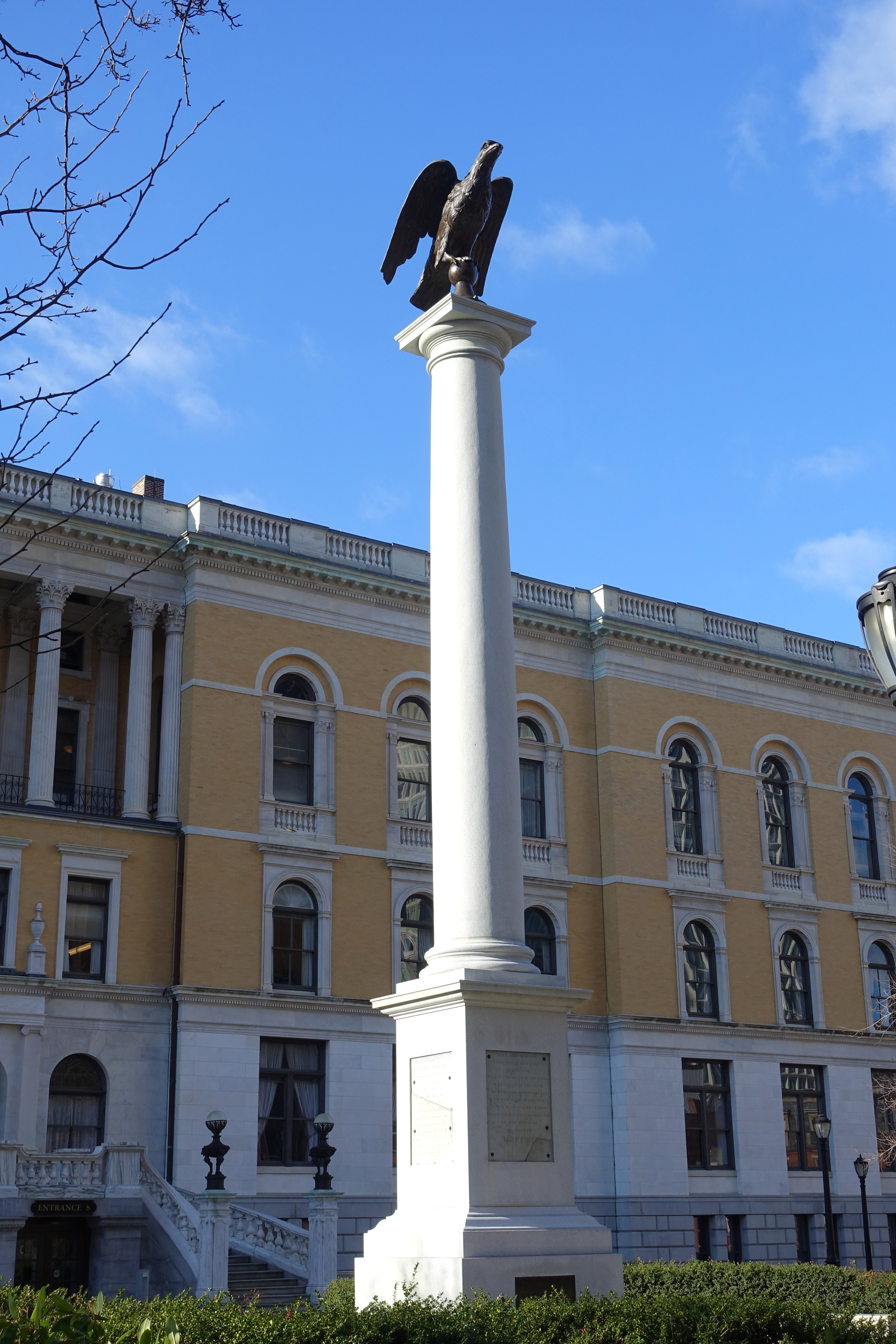 Beacon Hill Monument - Boston, Massachusetts, USA. This monument was erected in 1898 to replace the 1790 original by architect Charles Bulfinch; the tablets appear to be original.